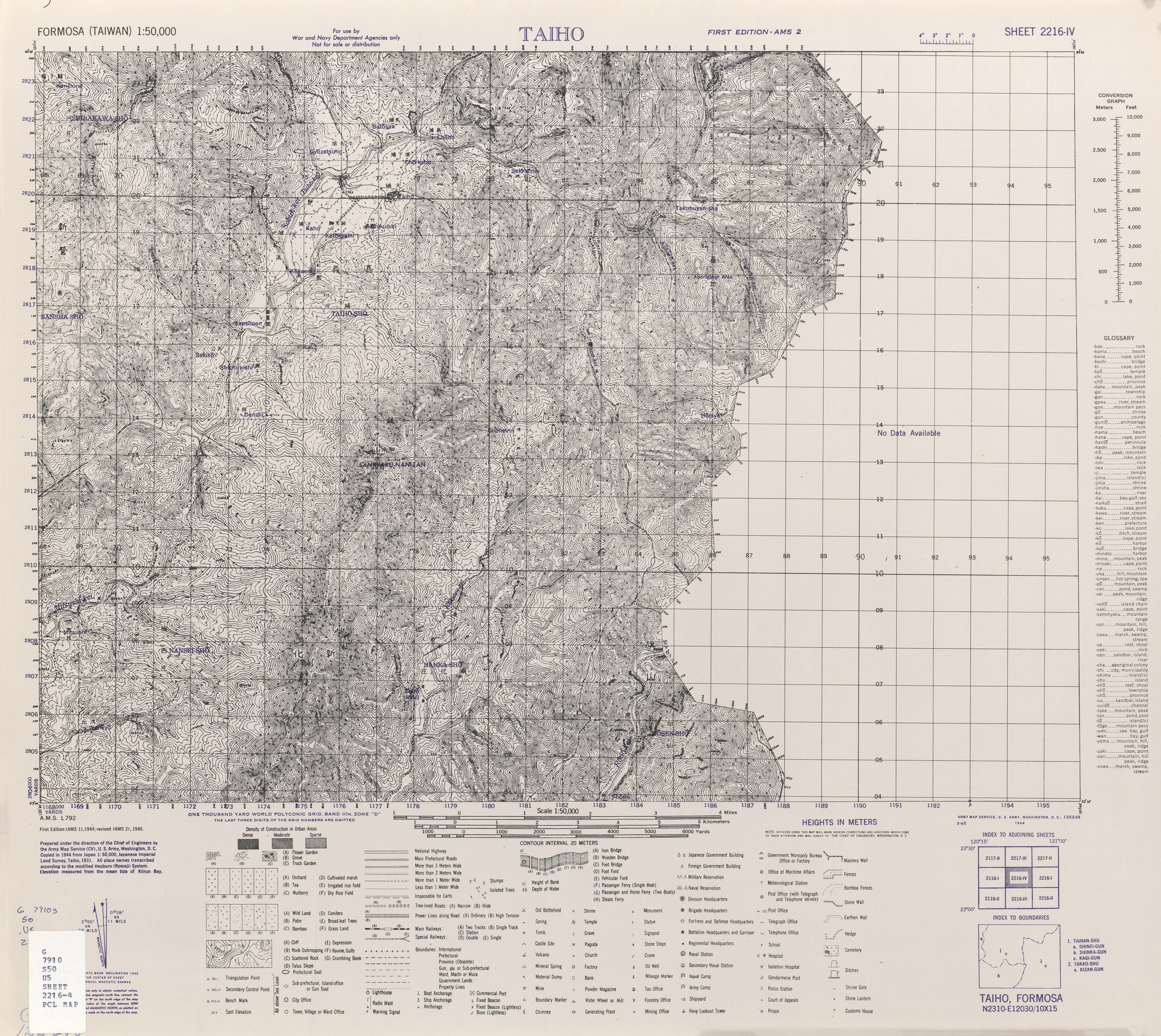 Map from Formosa (Taiwan) 1:50,000 AMS Series L792